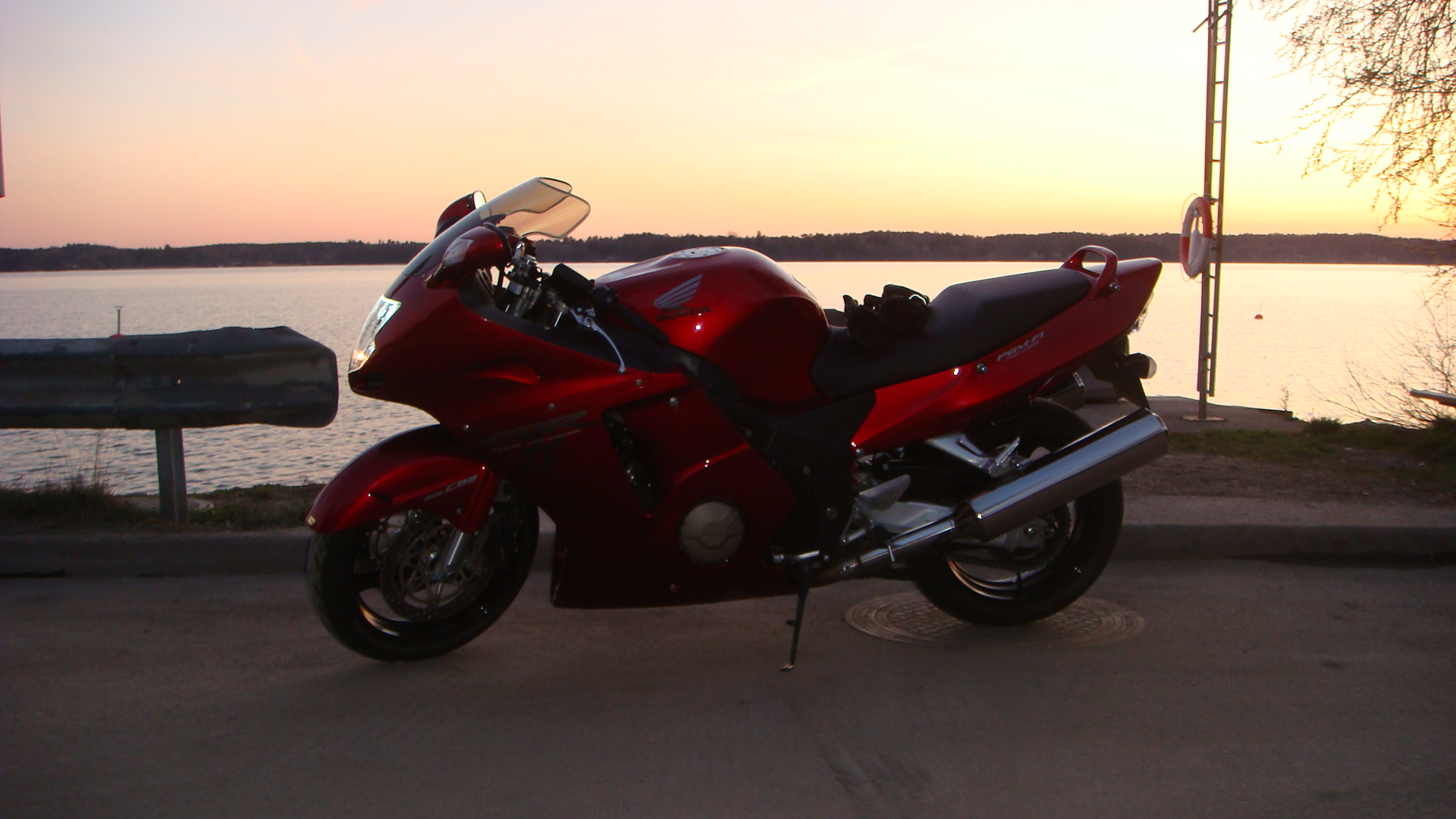 Honda CBR 1100XX 1999. Picture taken 24th of April 2009 19:28 at Hässelby Villastad west of Stockholm Sweden.